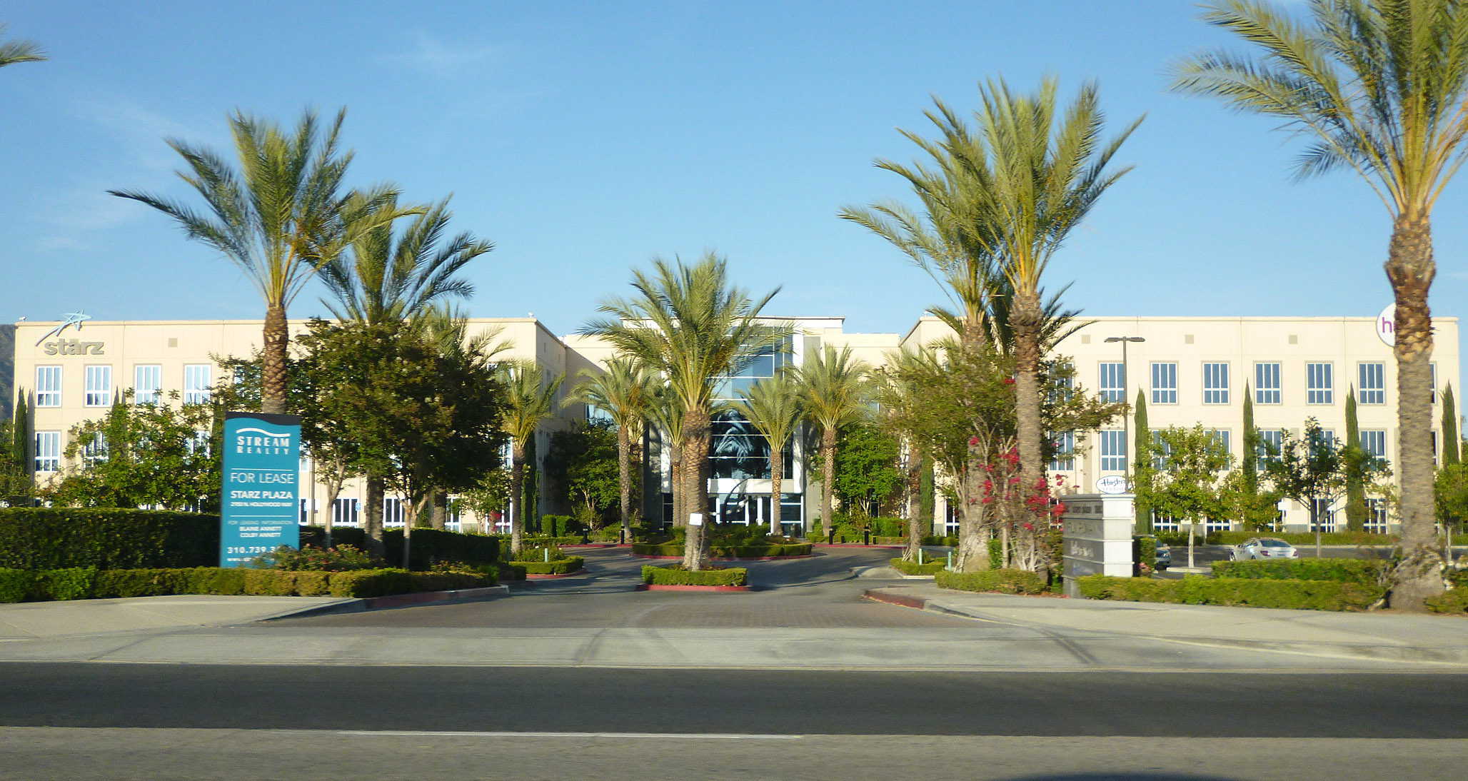 2950 Hollywood Way, Burbank, California. As of 2014, this office building is home to the Hub Network and Hasbro Studios. Photographed by user Coolcaesar on 1 June 2014.